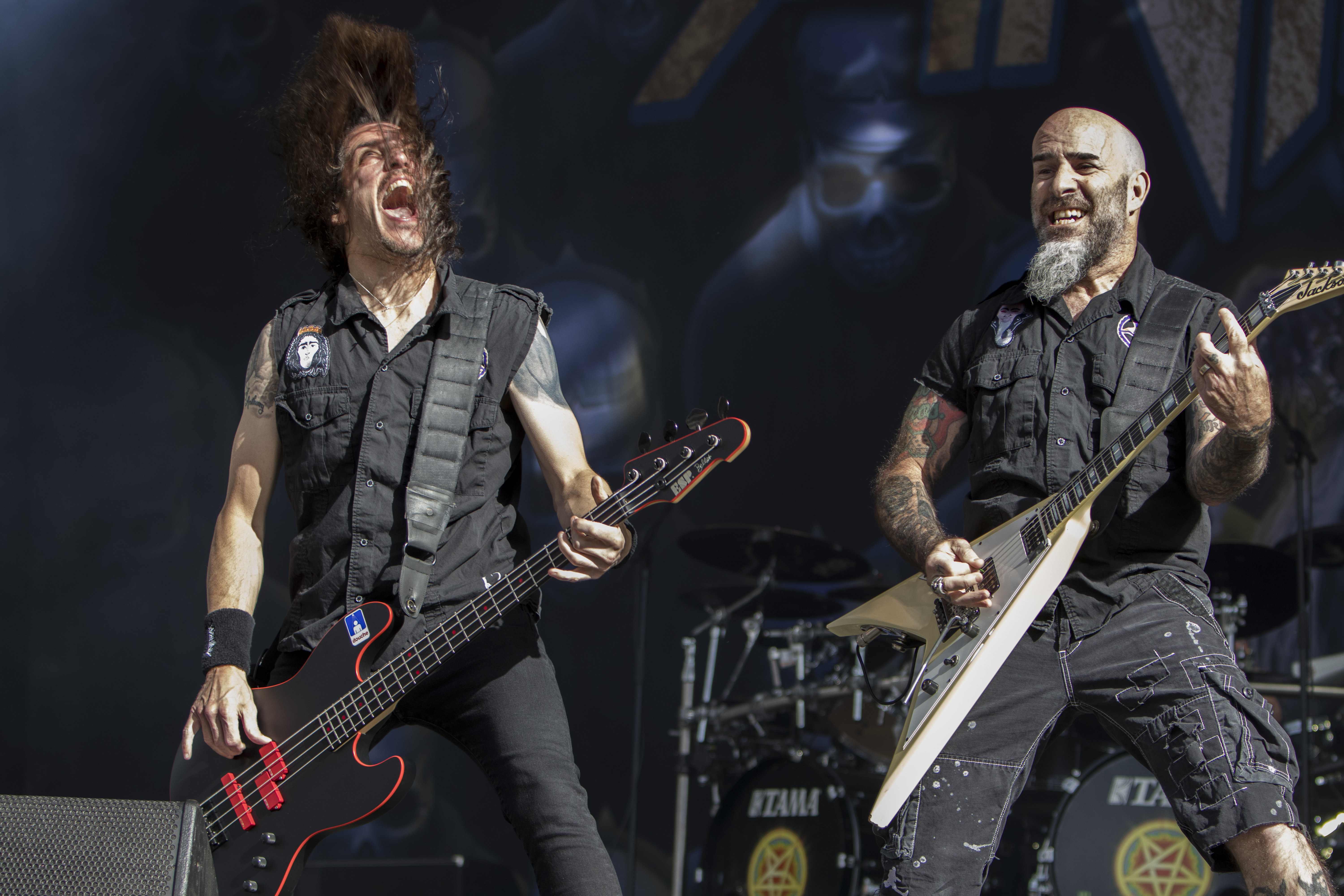 Anthrax at Tuska Open Air Metal Festival 2019 in Helsinki, Finland (Kalasatama)